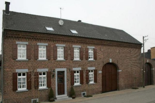 Cultural heritage monument No. 44 in Selfkant